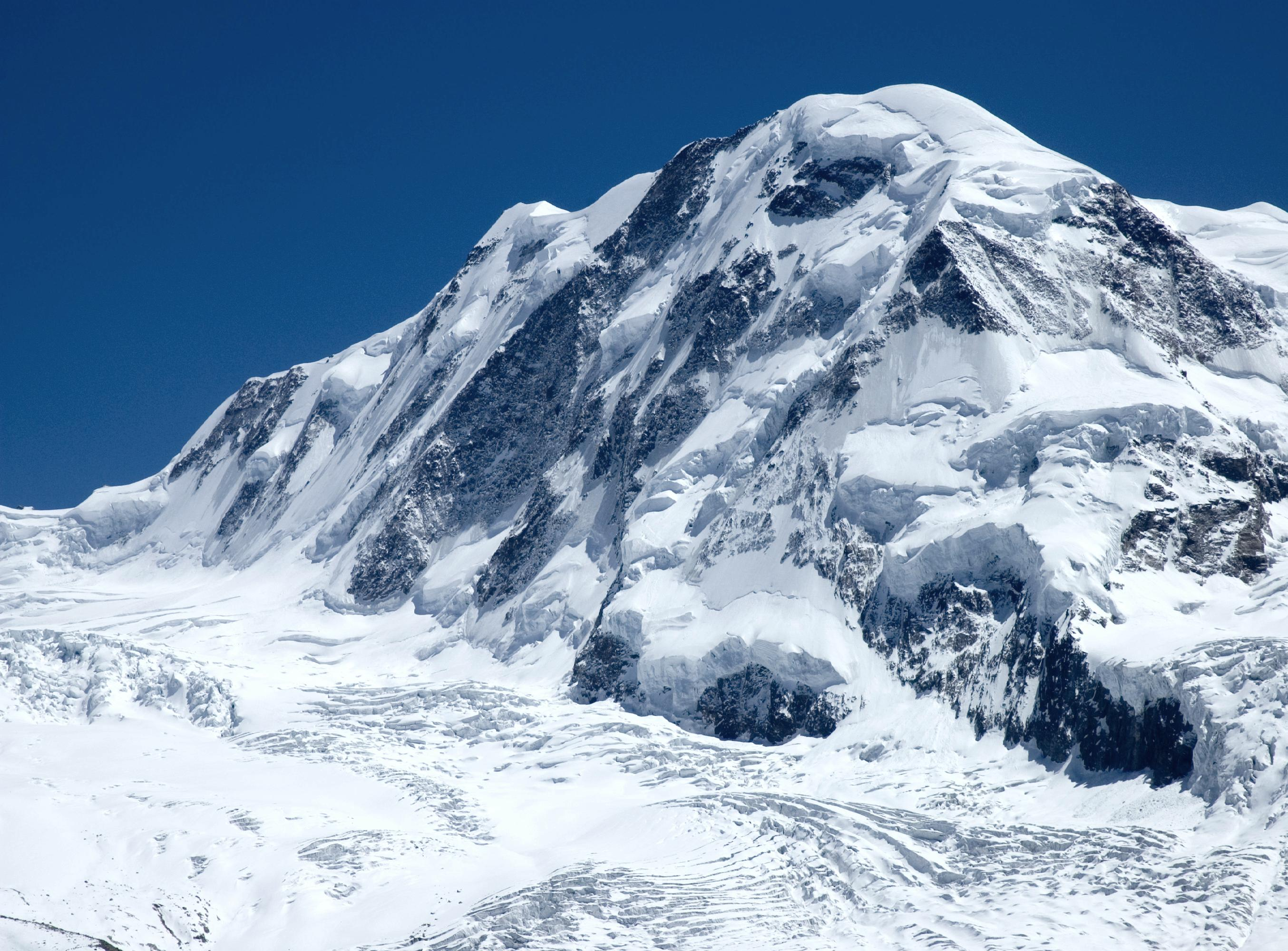 Liskamm (4527 metres)